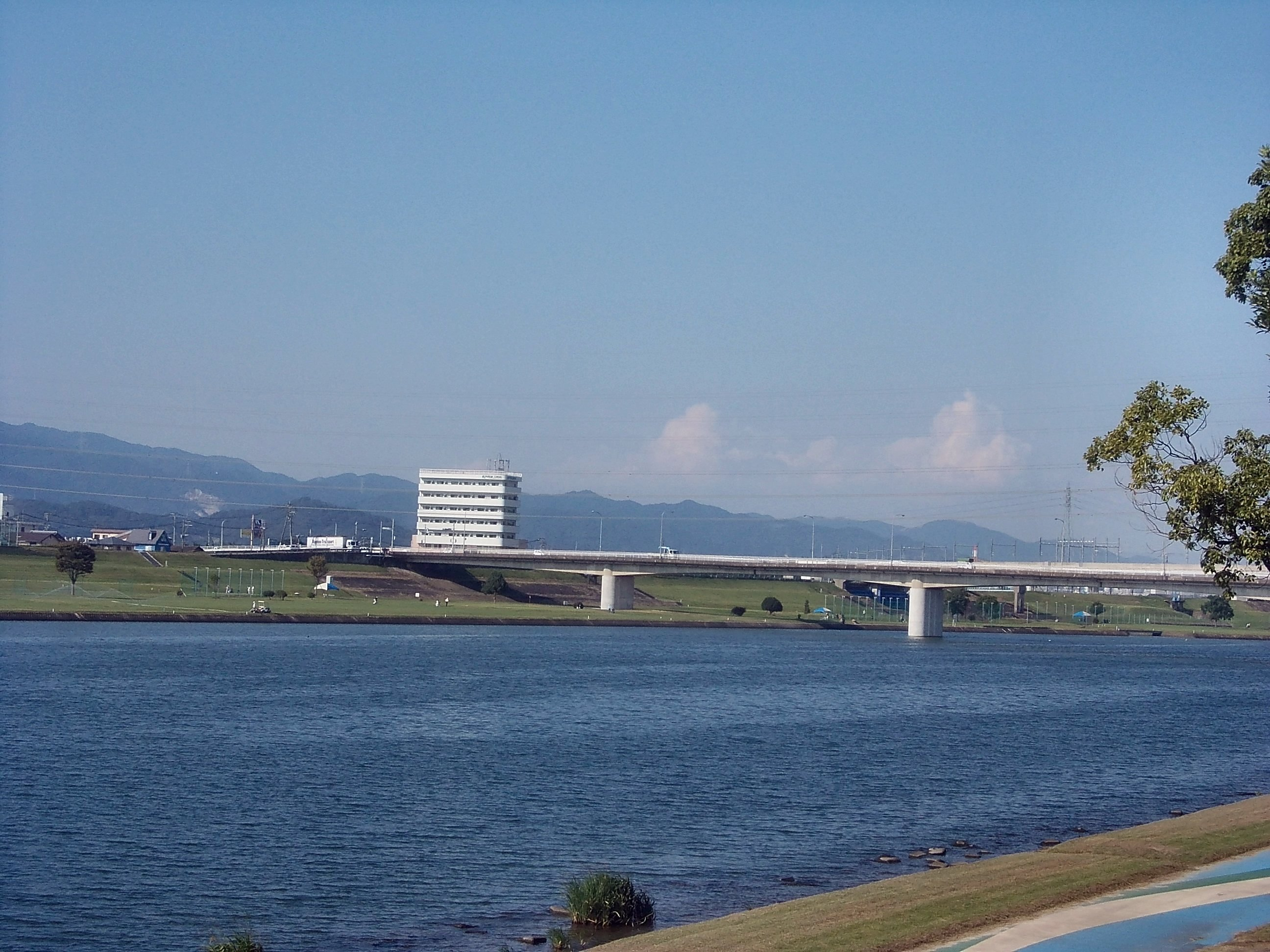 A view of Chikugo River from Kurume Suiten-gu.